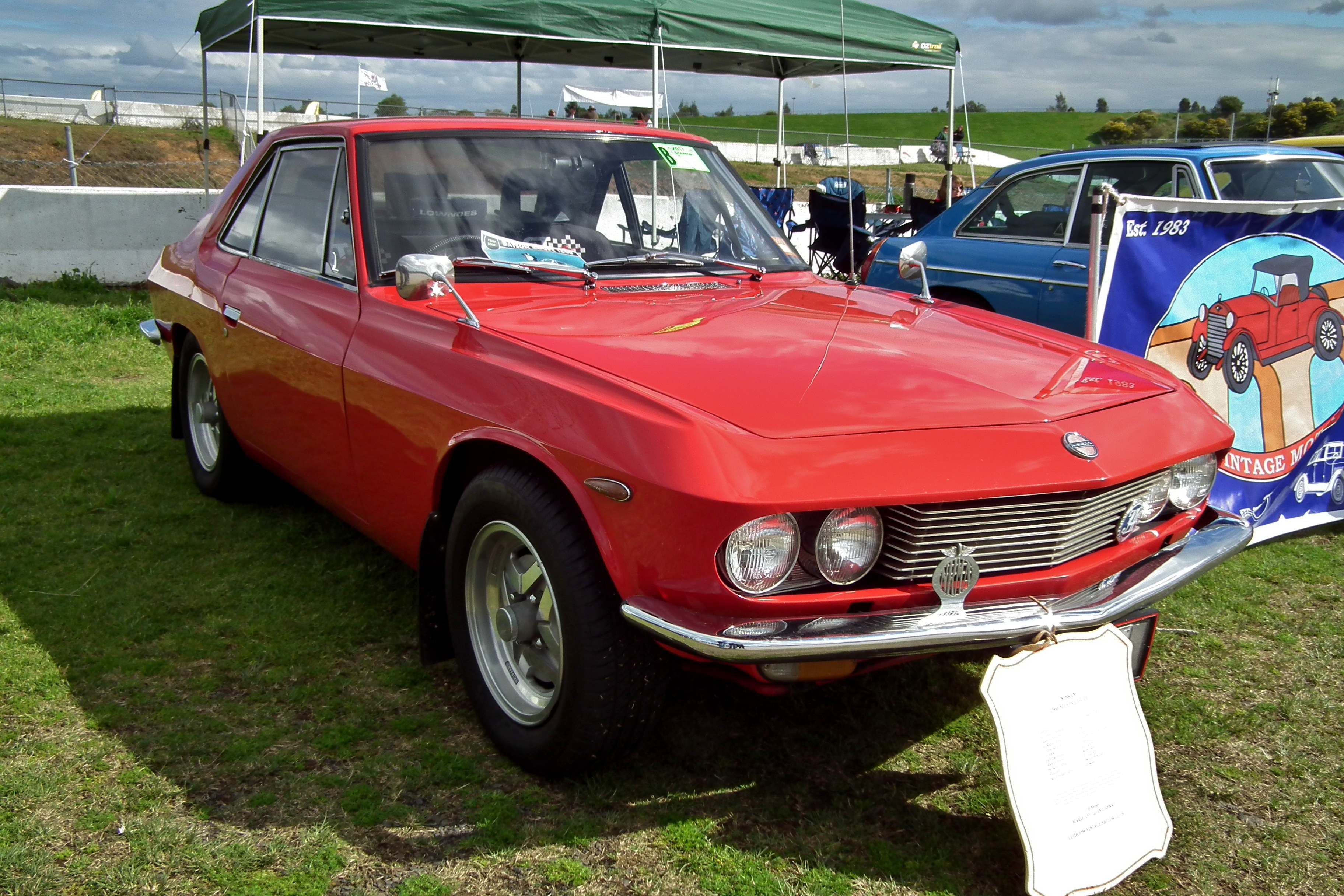 1966 Nissan Silvia CSP311 coupe. Taken at Shannon's Eastern Creek Classic 2011, held at Eastern Creek Raceway Sydney.